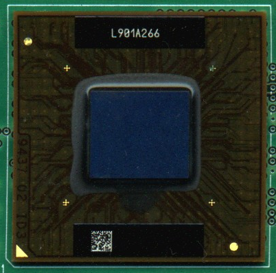 Intel Pentium II IC, example of die to BGA interposer